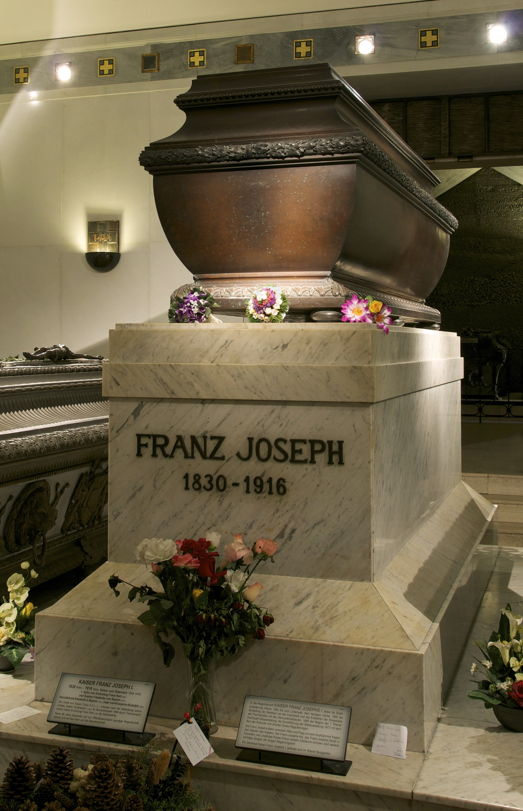 Sarcophagus of Emperor and King Franz-Joseph of Austria, in the crypt of the church of the Capuchins, in Vienna, Austria.